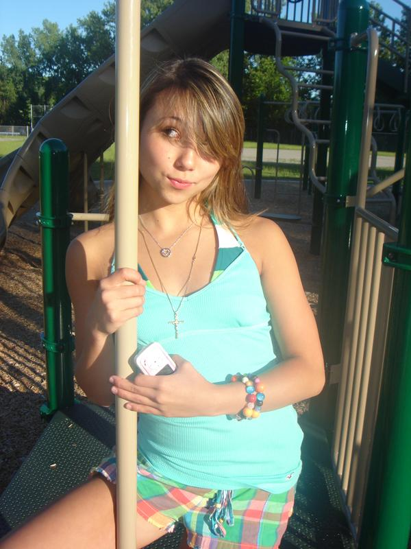 Allie DiMeco 0 This image is free and can be used anywhere.